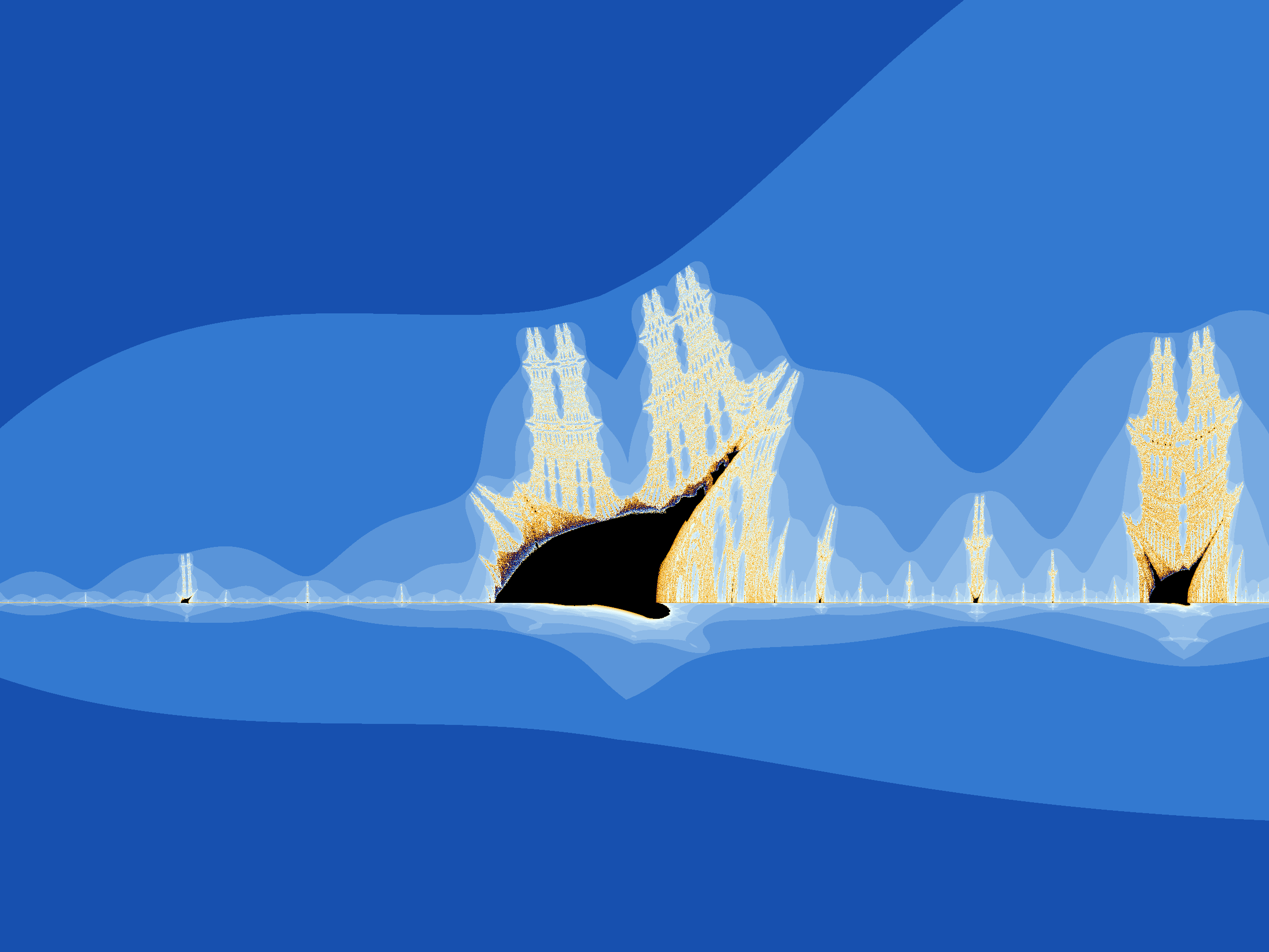 PNG version of .